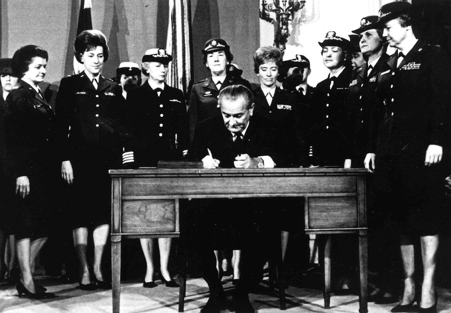 President Lyndon B. Johnson signs Public Law 90-130